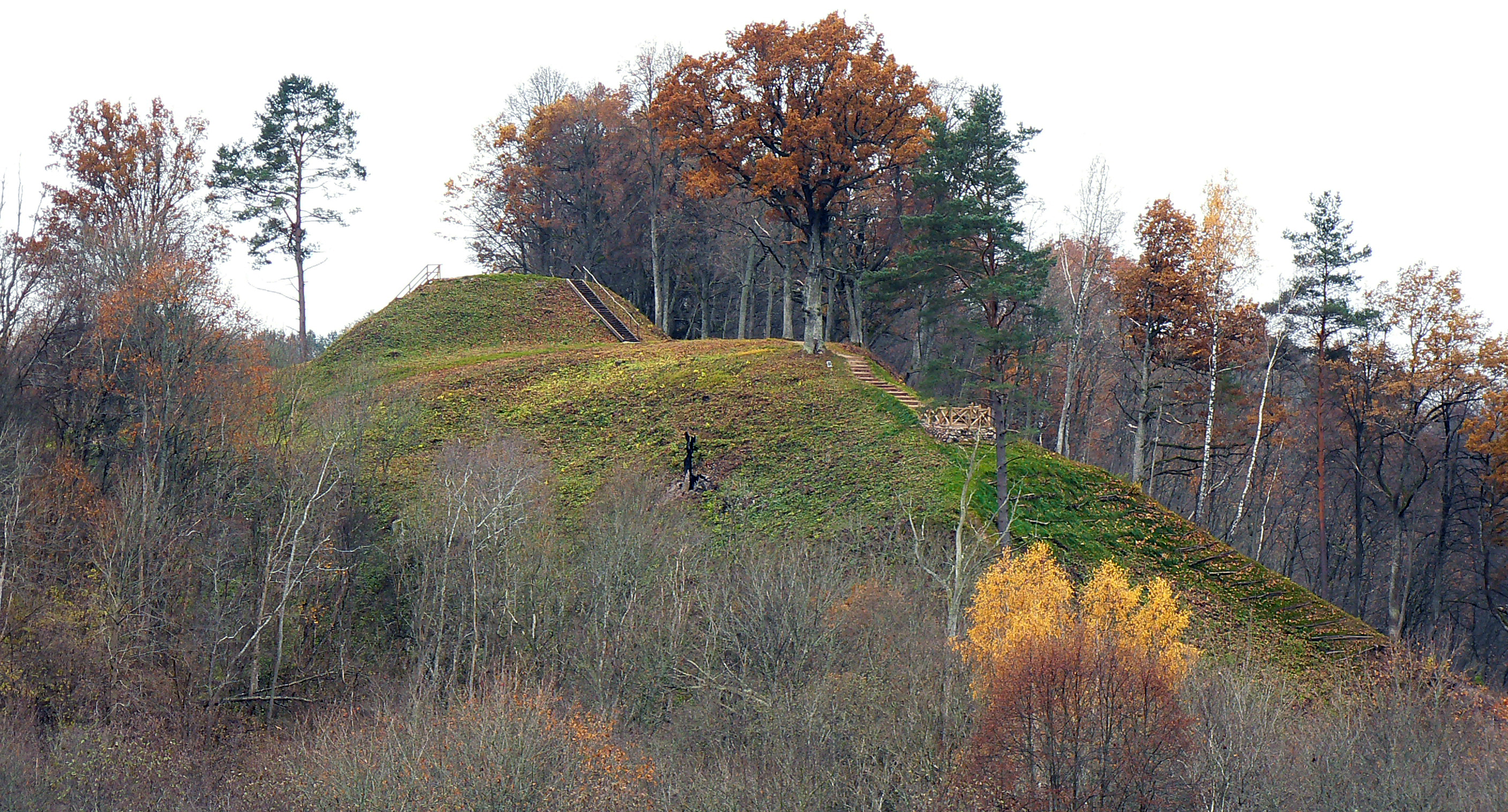 Biuvydai hillfort.